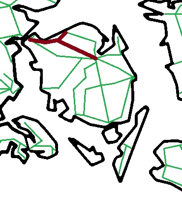 Map of railways on Funen in Denmark with the private railway Nordvestfyenske Jernbane in brown.